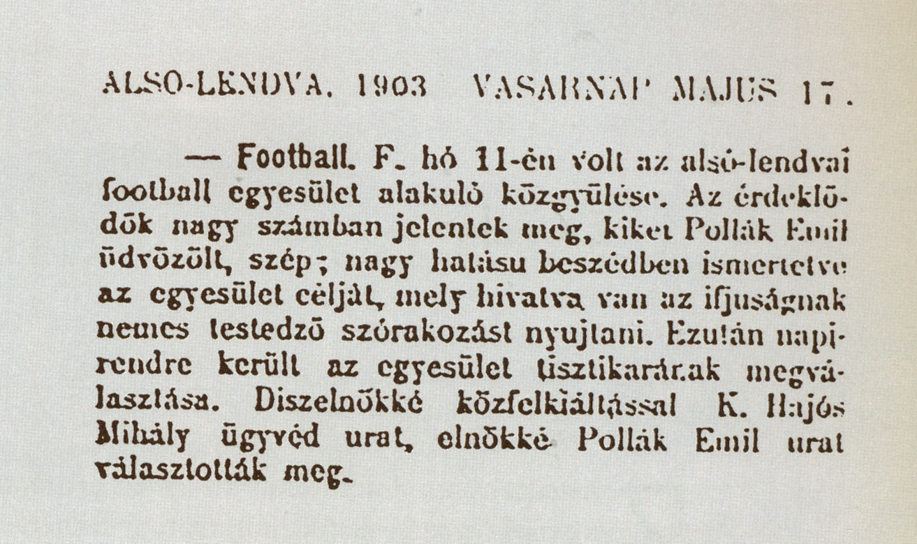 Newspaper article about the founding of the local football club in Lendvalabel QS:Len,"Newspaper article about the founding of the local football club in Lendva" label QS:Lhu,"Korabeli újságcikk a lendvai futballklub megalakításáról"